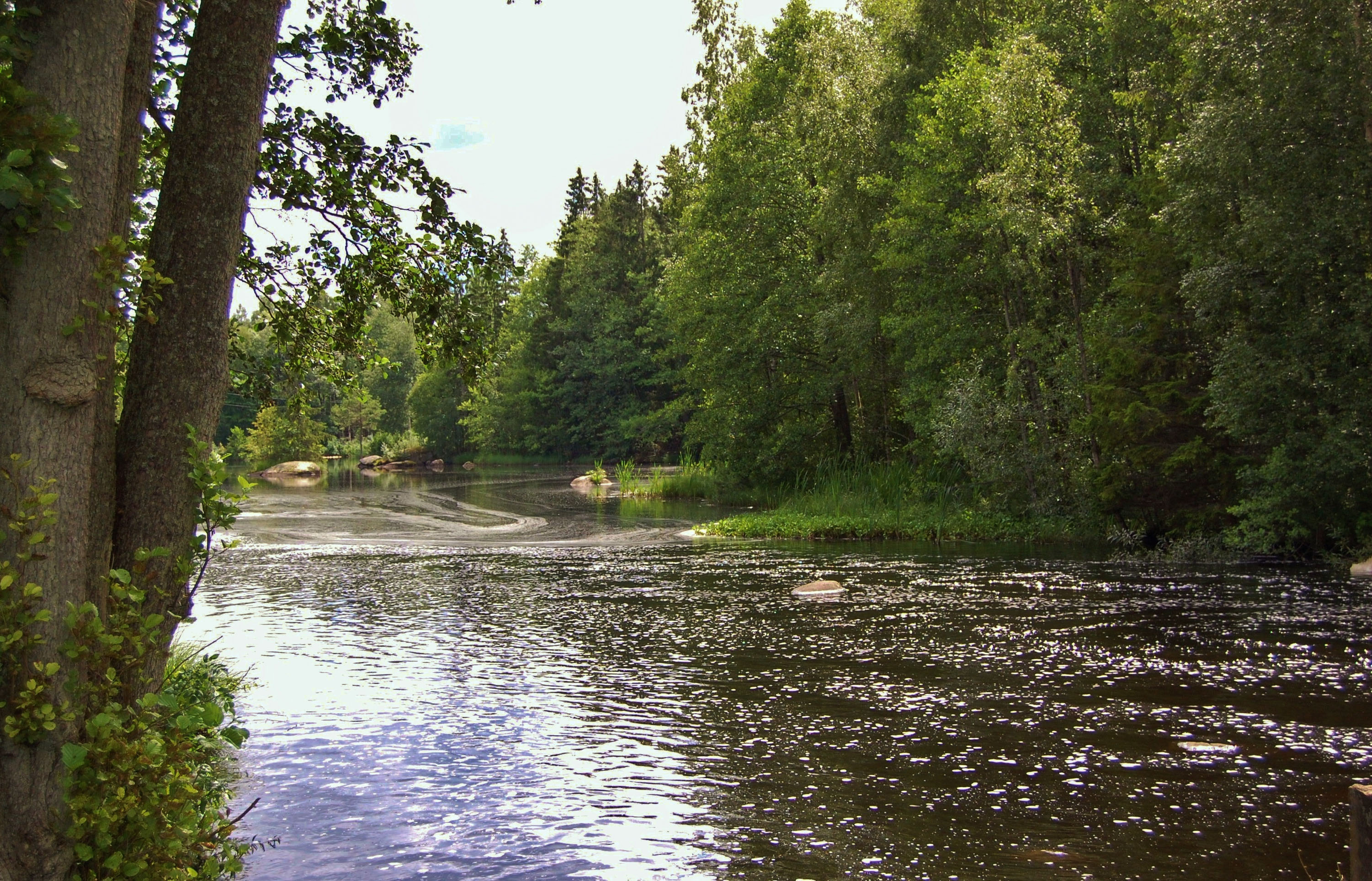 Johansfors.Lyckeby River